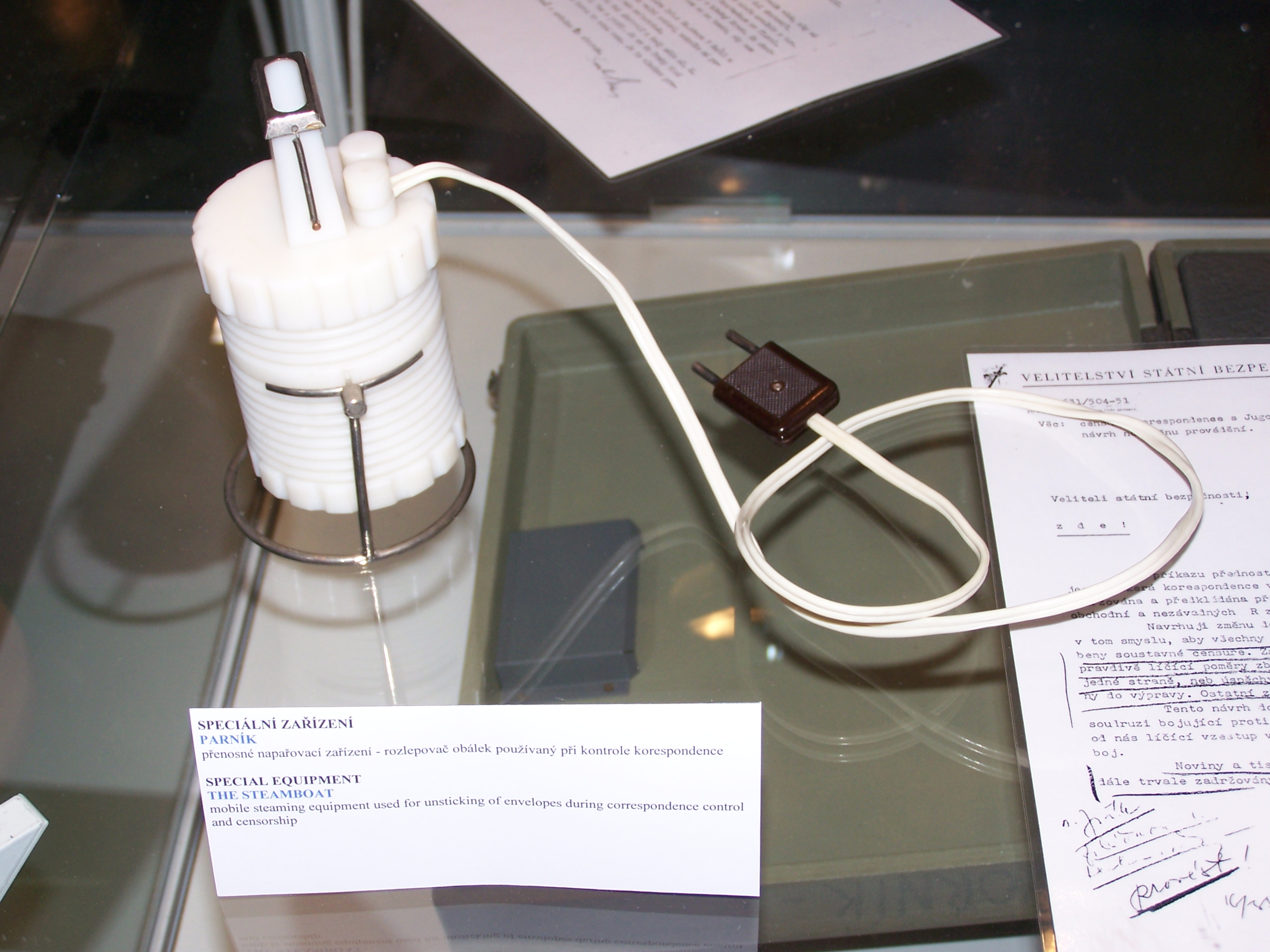 "The Steamer" - mobile steaming equipment used for unsticking of envelopes during correspondence surveillance and censorship. Used by former Czechoslovak StB. From IDET 2007 fair in Brno.